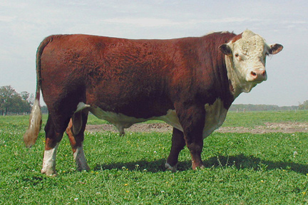 Genetically-polled Hereford bull. Courtesy of Dogwood Farm and Studios of LaCenter, Kentucky USA